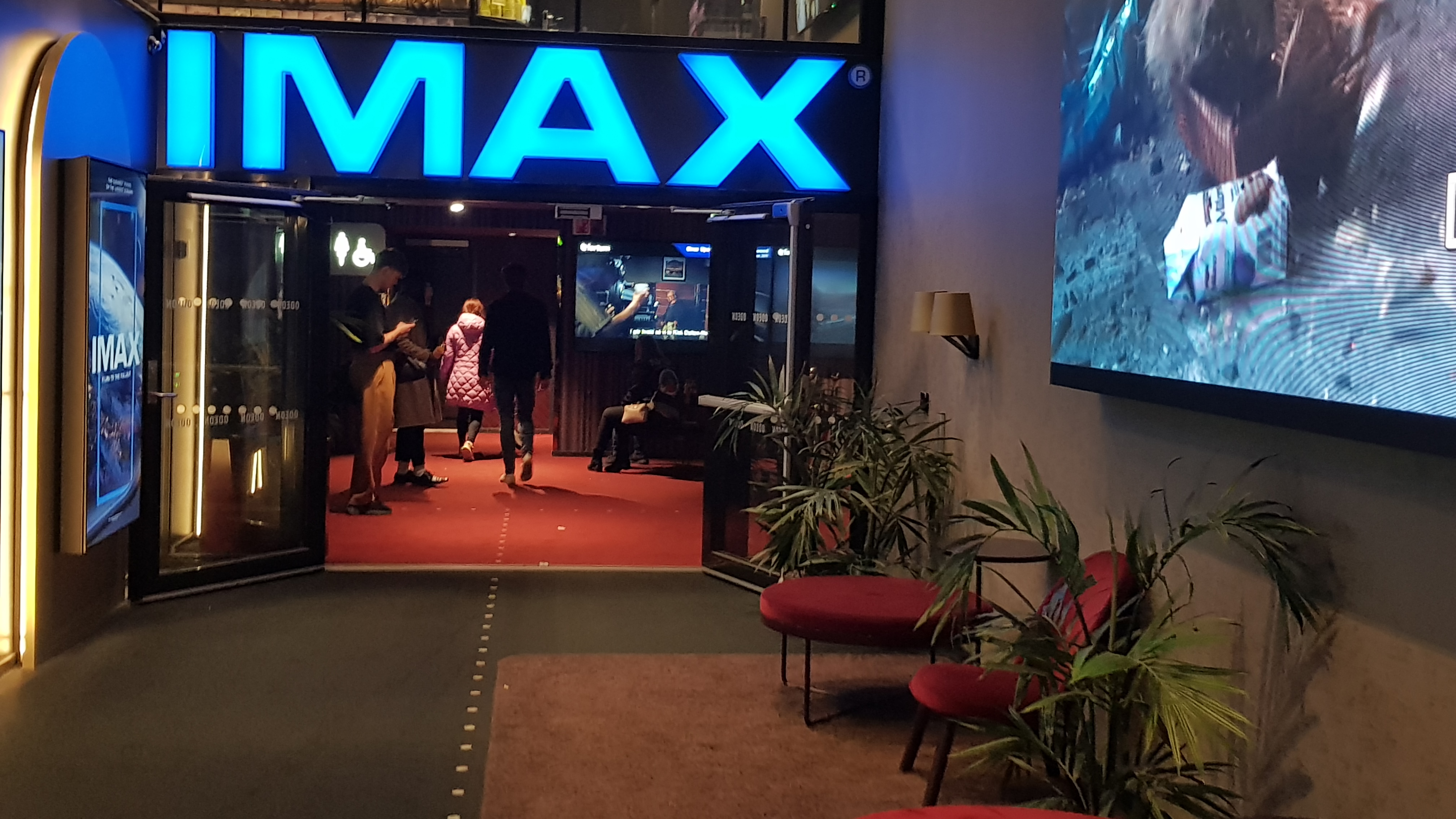 Odeon Oslo IMAX entrance